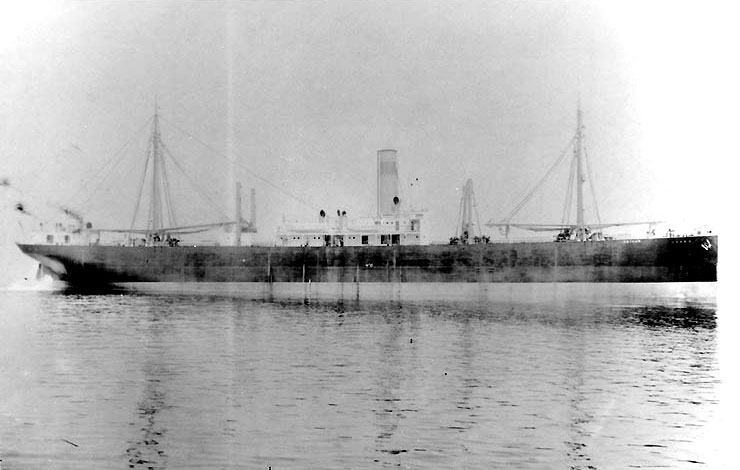 S.S. Ohioan (American Freighter, 1914) Photographed prior to her World War I era Naval service. This ship served as USS Ohioan (ID # 3280) in 1918-1919. U.S. Naval Historical Center Photograph.